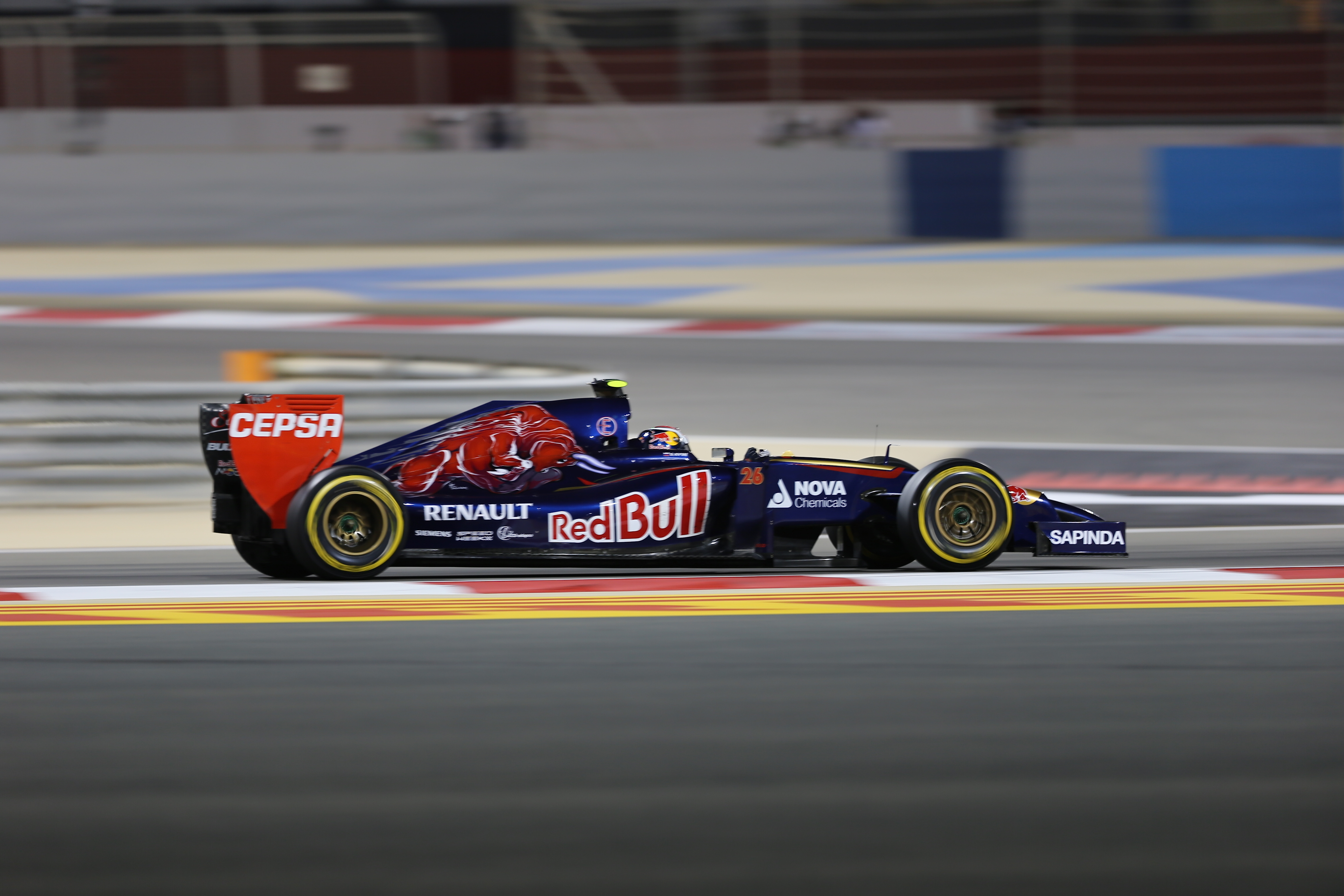 Daniil Kvyat on Toro Rosso STR9 at the 2014 Bahrain Grand Prix